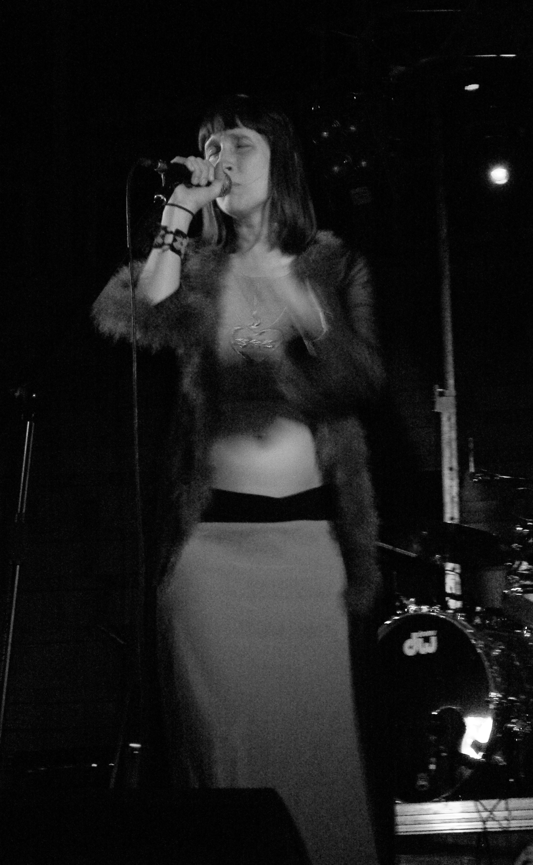 Andrea Echeverri lead singer from colombian band Aterciopelados.